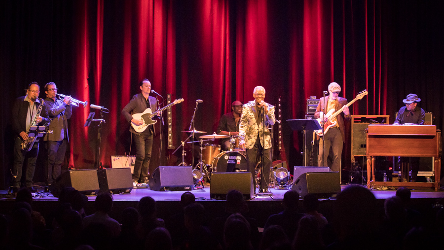 Don Bryant and The Bo-Keys at the stage at Cosmopolite. The concert took place on 08. September 2017. Lineup: Don Bryant (vocal), Joe Restivo (guitar), Scott Bomar (bass guitar), Dave Mason (drums), Archie Turner (organ), Kirk Smothers (tenor saxophone) and Marc Franklin (trumpet).